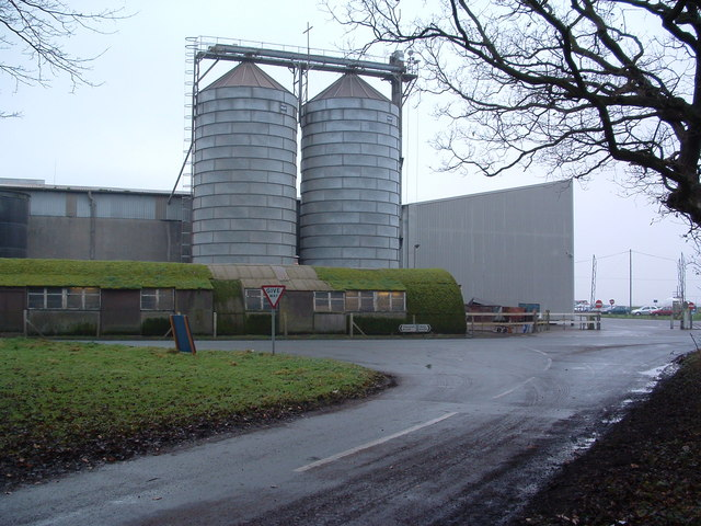 North Creake Airfield A small part of the old WW2 airfield North Creake Norfolk now business premises of ABN. Just look at the old moss covered Nissen huts for info on the airfield